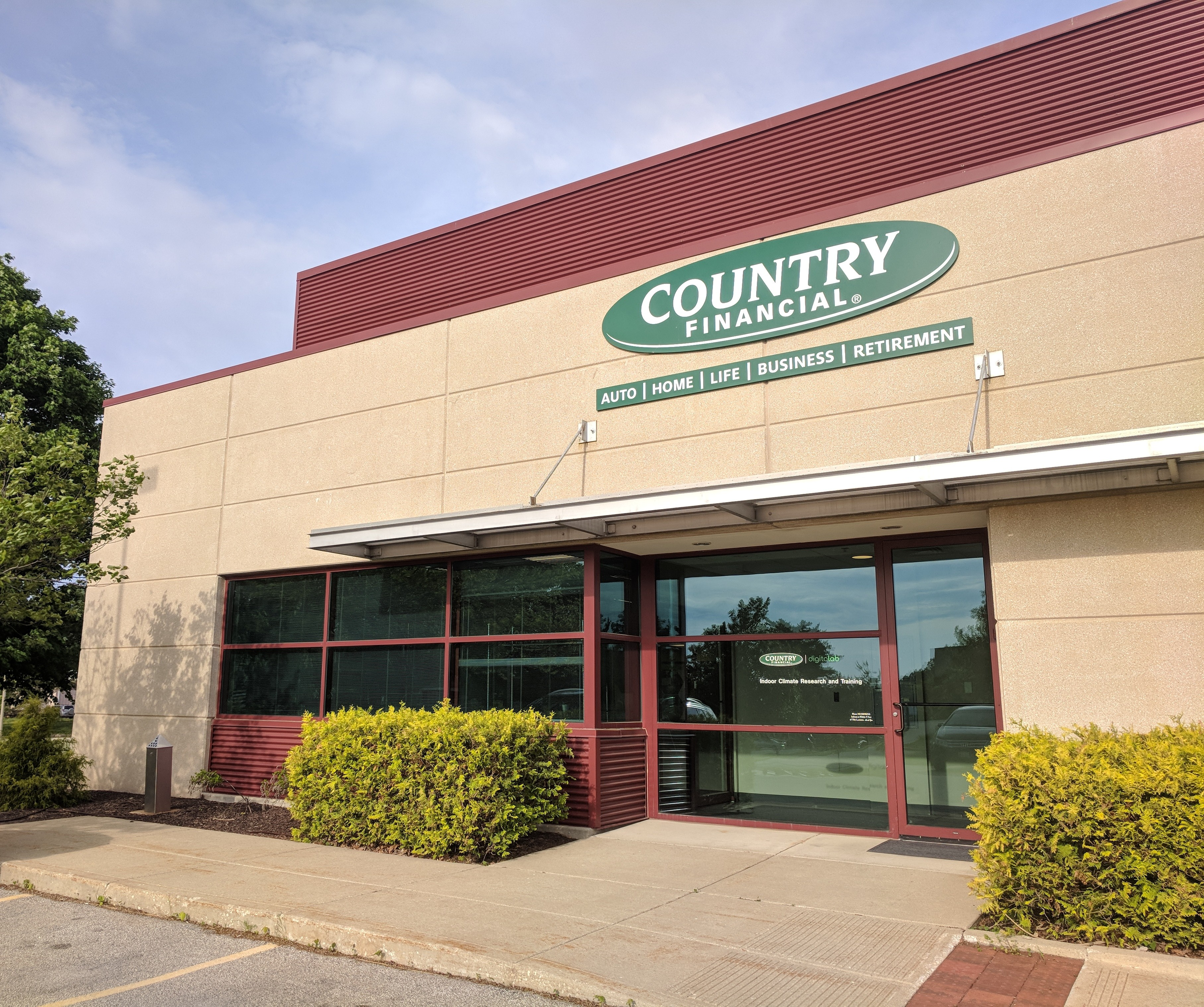 The Country Financial Digitalab located within Research Park.